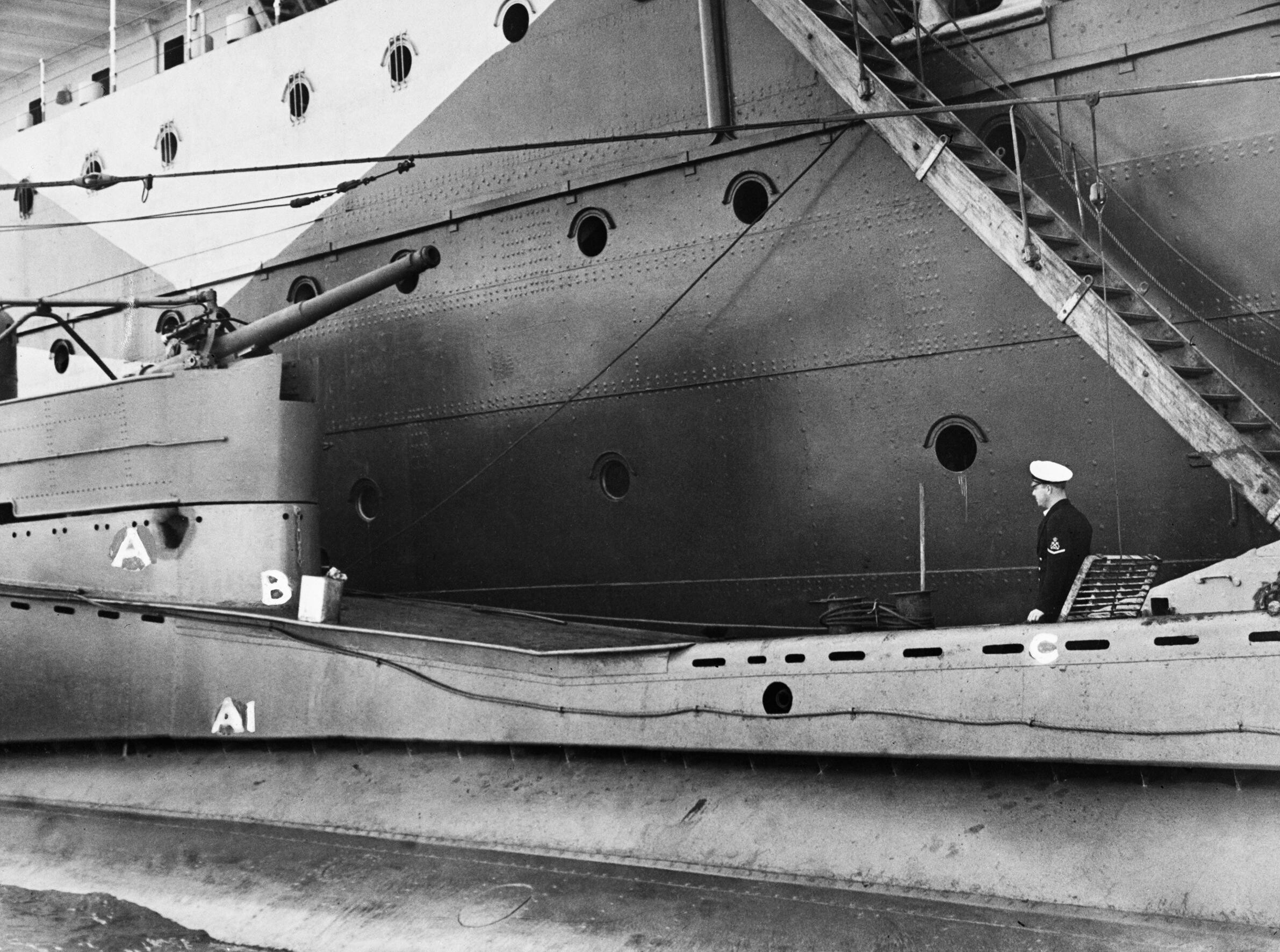 Damage to the casing of HM Submarine THRASHER after two bombs struck her off Crete on the night of 15/16 February 1942. Neither exploded and both were removed by two members of the crew. A - where bomb penetrated the gun platform. A1 - the position where the bomb was discovered inside the casing. B - Position where 2nd unexploded bomb was discovered lying on the casing, bomb represented by the tin can. C - Petty Officer Gould, VC, standing in the casing-hatch through which bomb from A1 was dragged. Note: THRASHER was at periscope depth, 34 feet, and going deep when the bombs struck her.